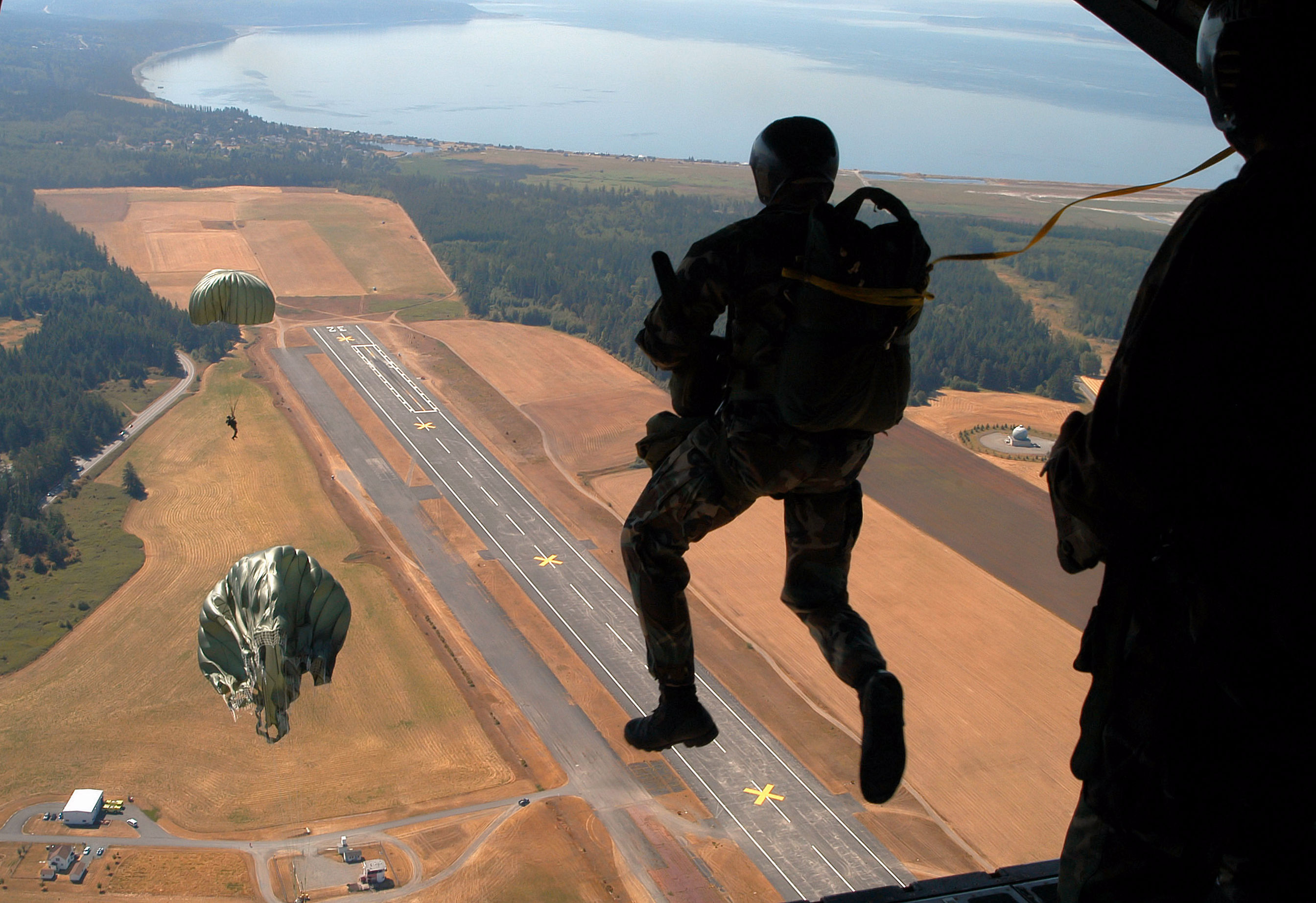 Aerial view of Navy Outlying Field (NOLF) Coupeville WA during training by Explosive Ordnance Disposal Mobile Unit Eleven (EODMU-11) - 2003